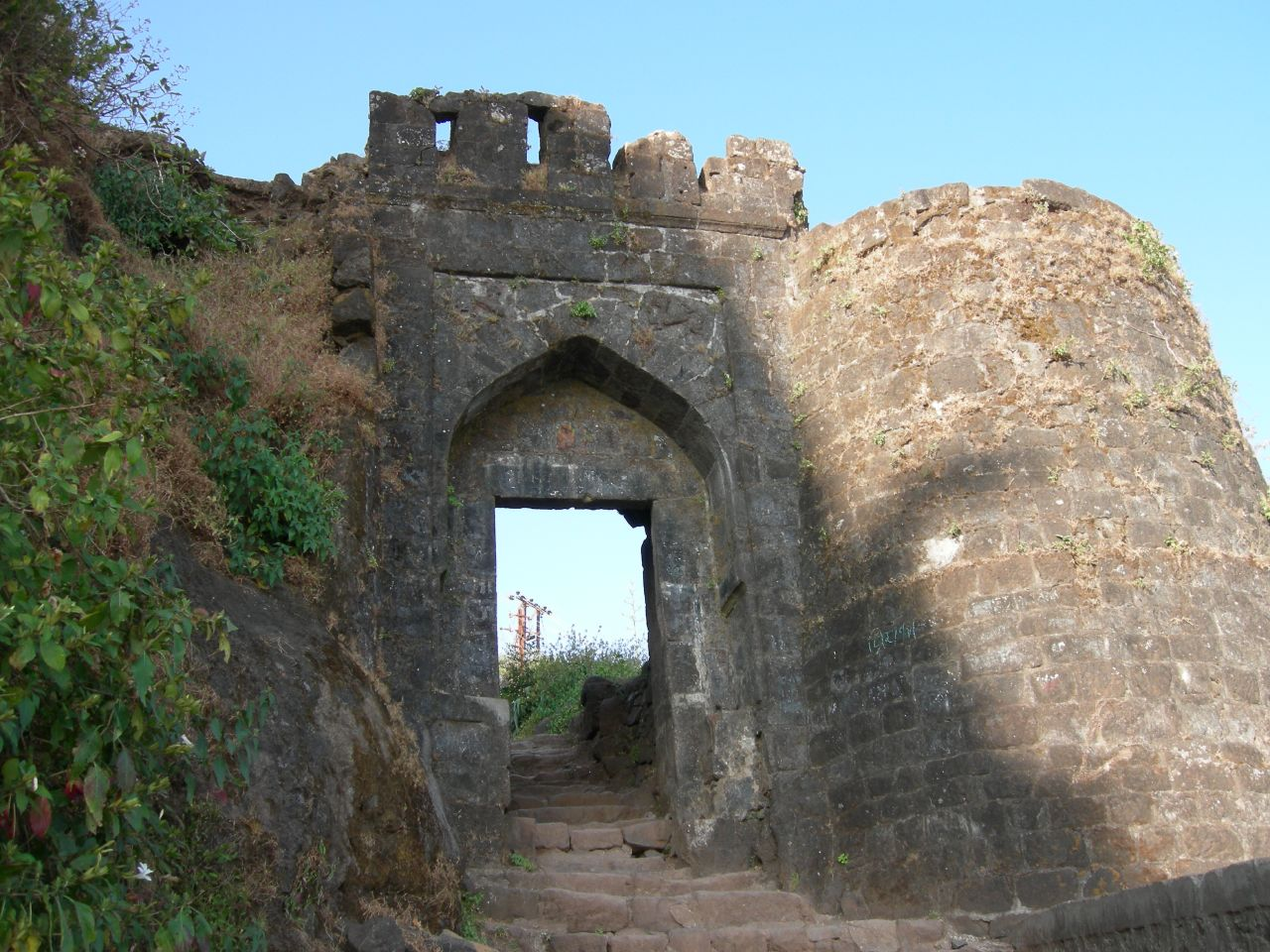 The entrance to Sinhagad Fort, Pune, India